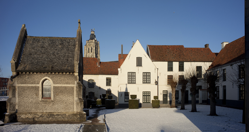 ref: PM_057938_B_Oudenaarde; 2e binnenpleinOudenaarde; Begijnhof; Oost-Vlaanderen; Belgium; Poortgebouw uit 1666(?), Ca 30 huisjes, deels verbouwd, 17de tot begin 20ste eeuw.; Cultural heritage; Cultural heritage/Begijnhof Béguinage; Europe/Belgium/Oudenaarde; Wiki Commons; Photographer: Paul M.R. Maeyaert; © Paul M.R. Maeyaert